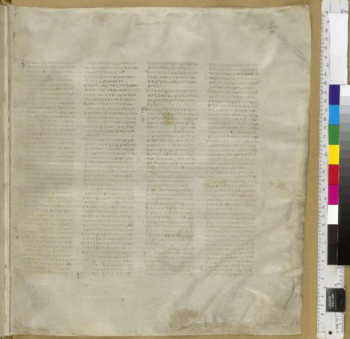 the first page of the Gospel of Matthew in the codex